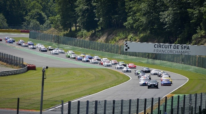 mitjet 2l